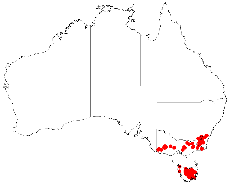 Bossiaea riparia Occurrence data downloaded 11 September 2018 from AVH